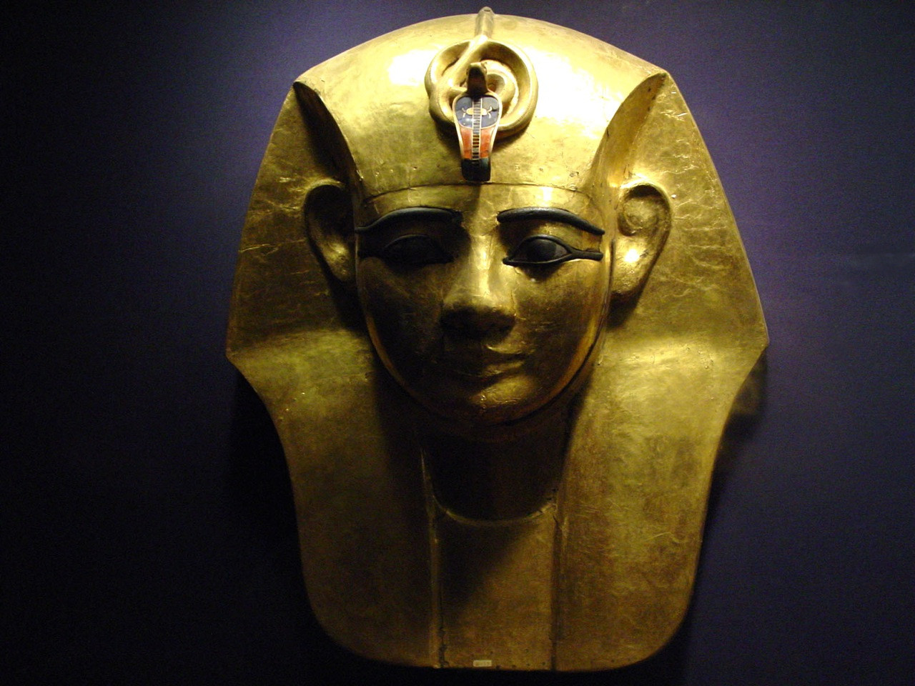 The Funerary mask of king Amenemope of the 21st dynasty of Egypt in the Cairo Museum. He was the successor of Psusennes I.